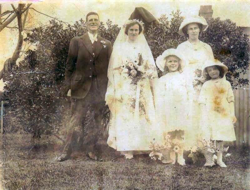 Wedding of Sydney George Smith and Kate Bint. The bridesmaid is Kate's older sister Bertha. For a detailed newspaper clipping